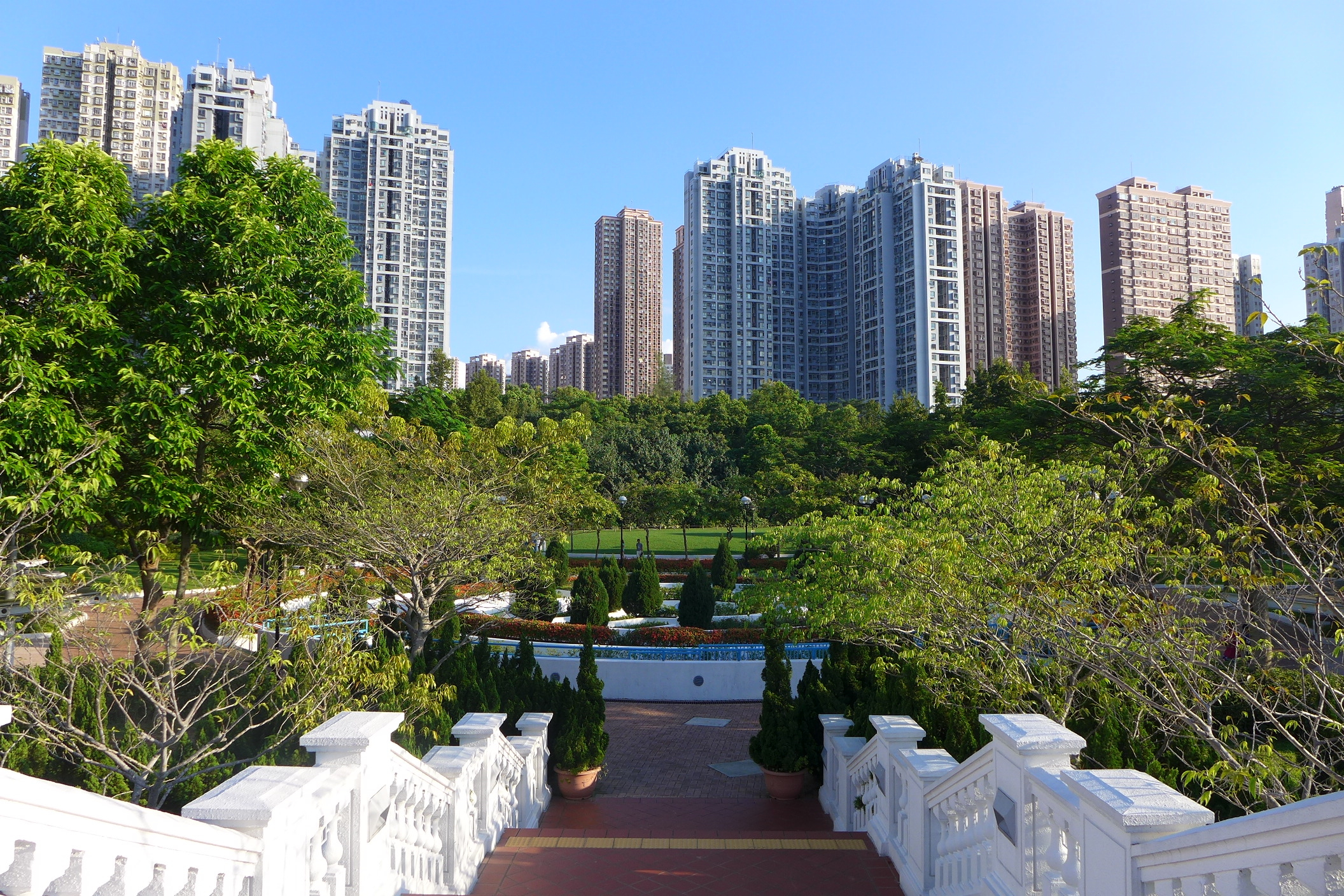 Ma On Shan Park Overview